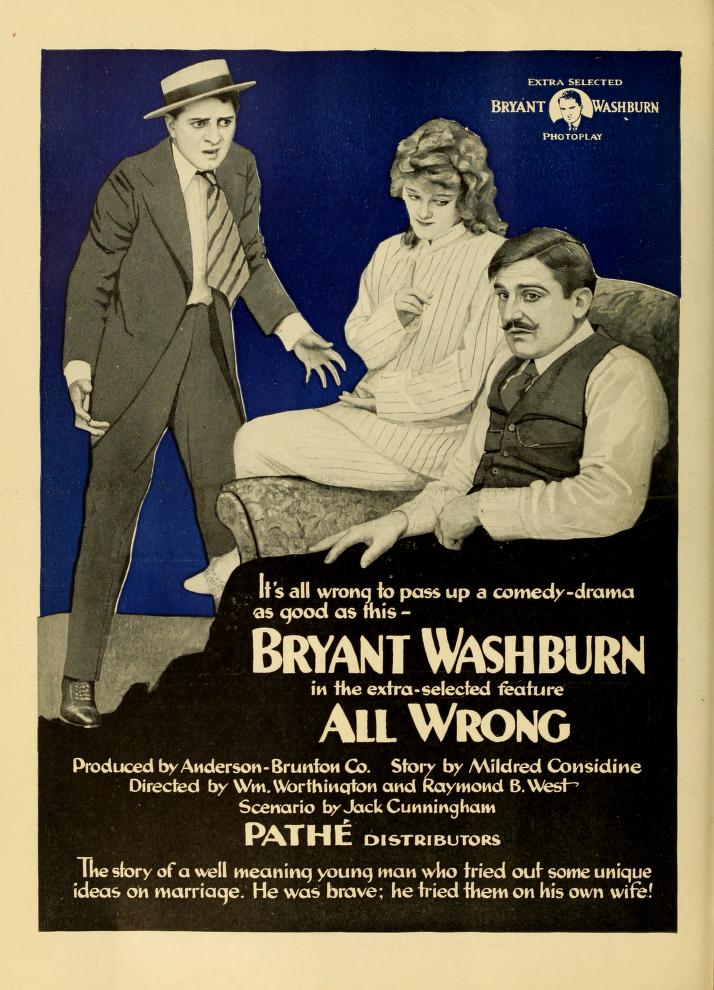 Advertisement for All Wrong (1919), in Moving Picture World, June 1919.